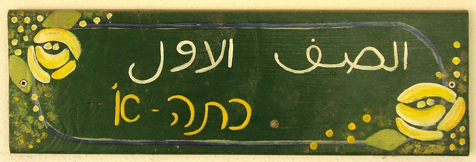 The sign outside the grade 1 classrom at Hand in Hand's "Bridge over the Wadi" School in Kafr Kara, Israel. Arabic writing: as-saff al-awwal Hebrew writing: kitah alef (Both meaning "Class 1")